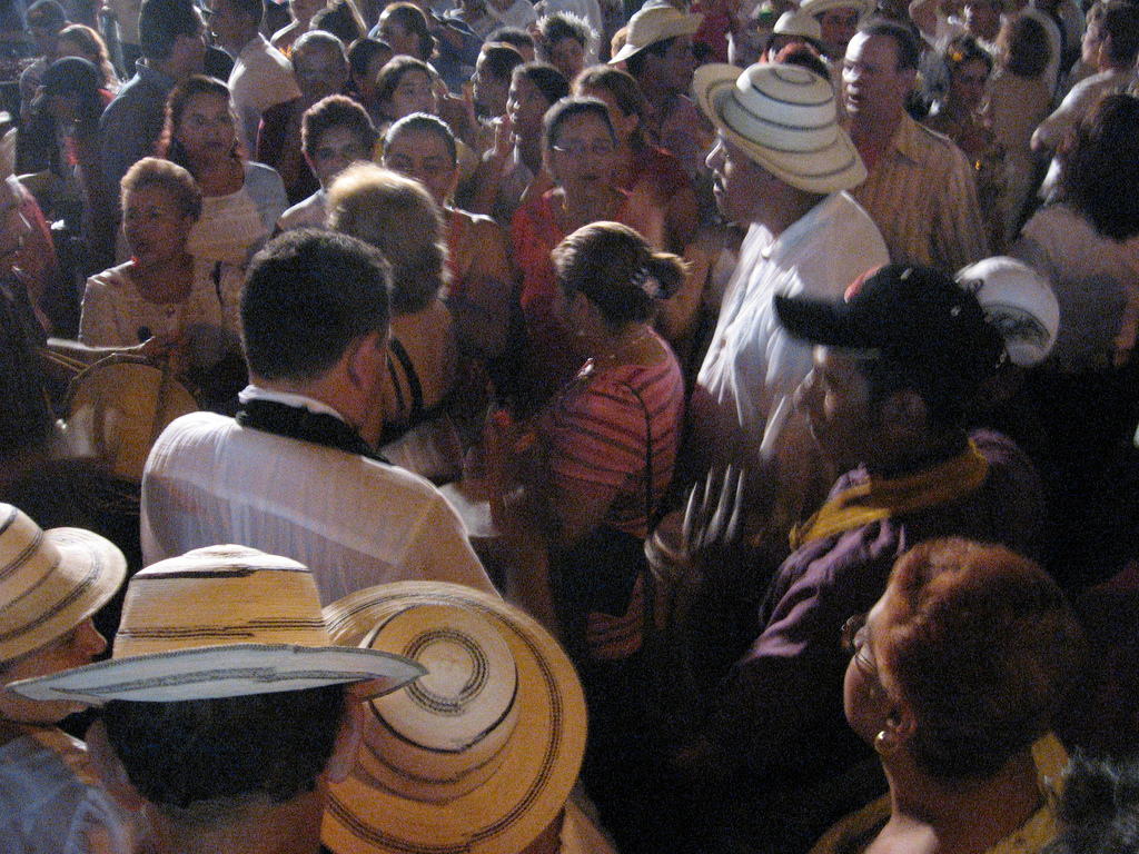 Tuna in the carnival of Las Tablas, Panamá